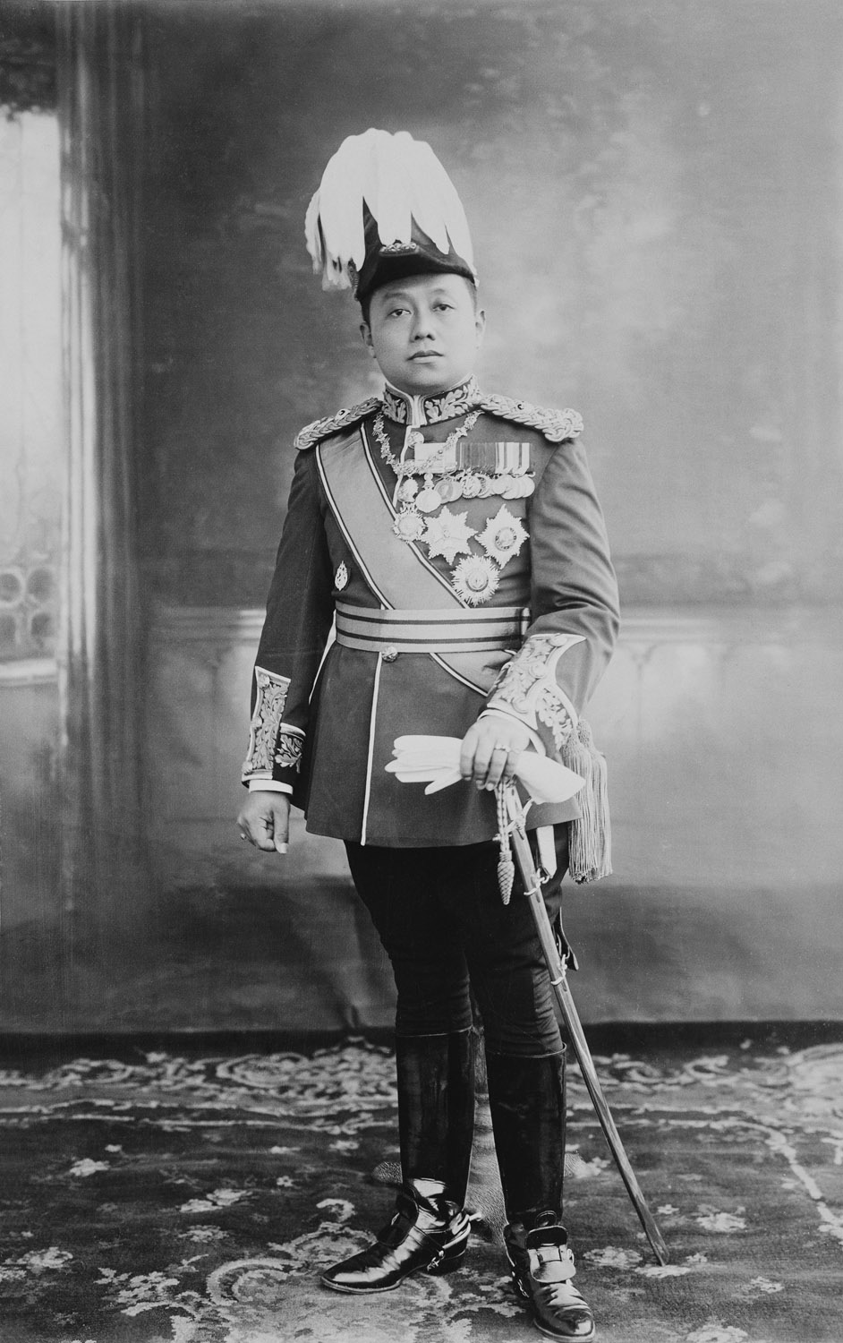 Photograph of King Vajiravudh of Thailand wearing the uniform of a General in the British Army, with many medals and insignia on jacket.